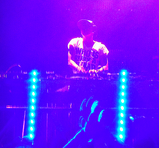 It is an image of Dj chuckie playing at Zuokout in 2011